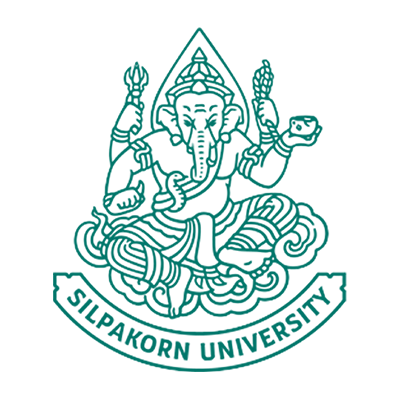 Ganesha Silpakorn University's Emblem